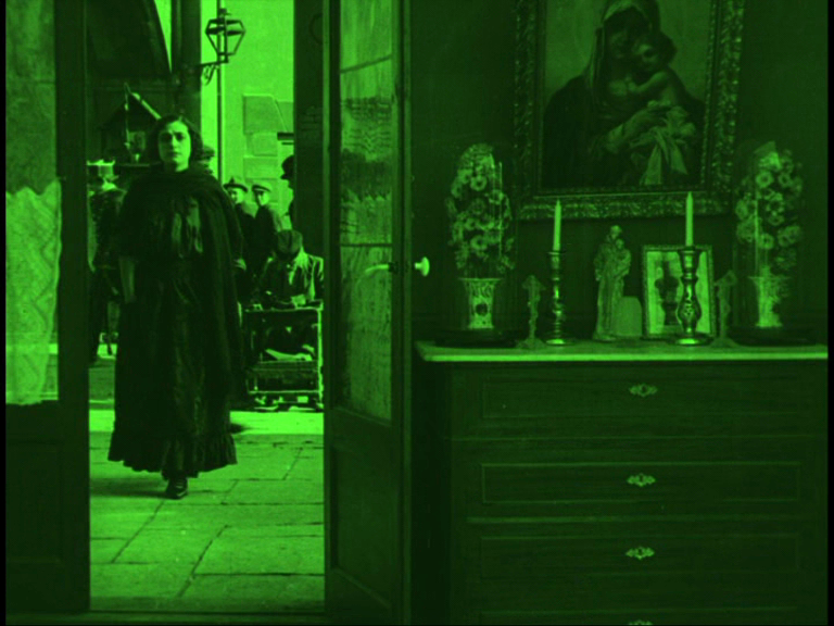 Screenshot from the movie Assunta Spina (1915) with Francesca Bertini